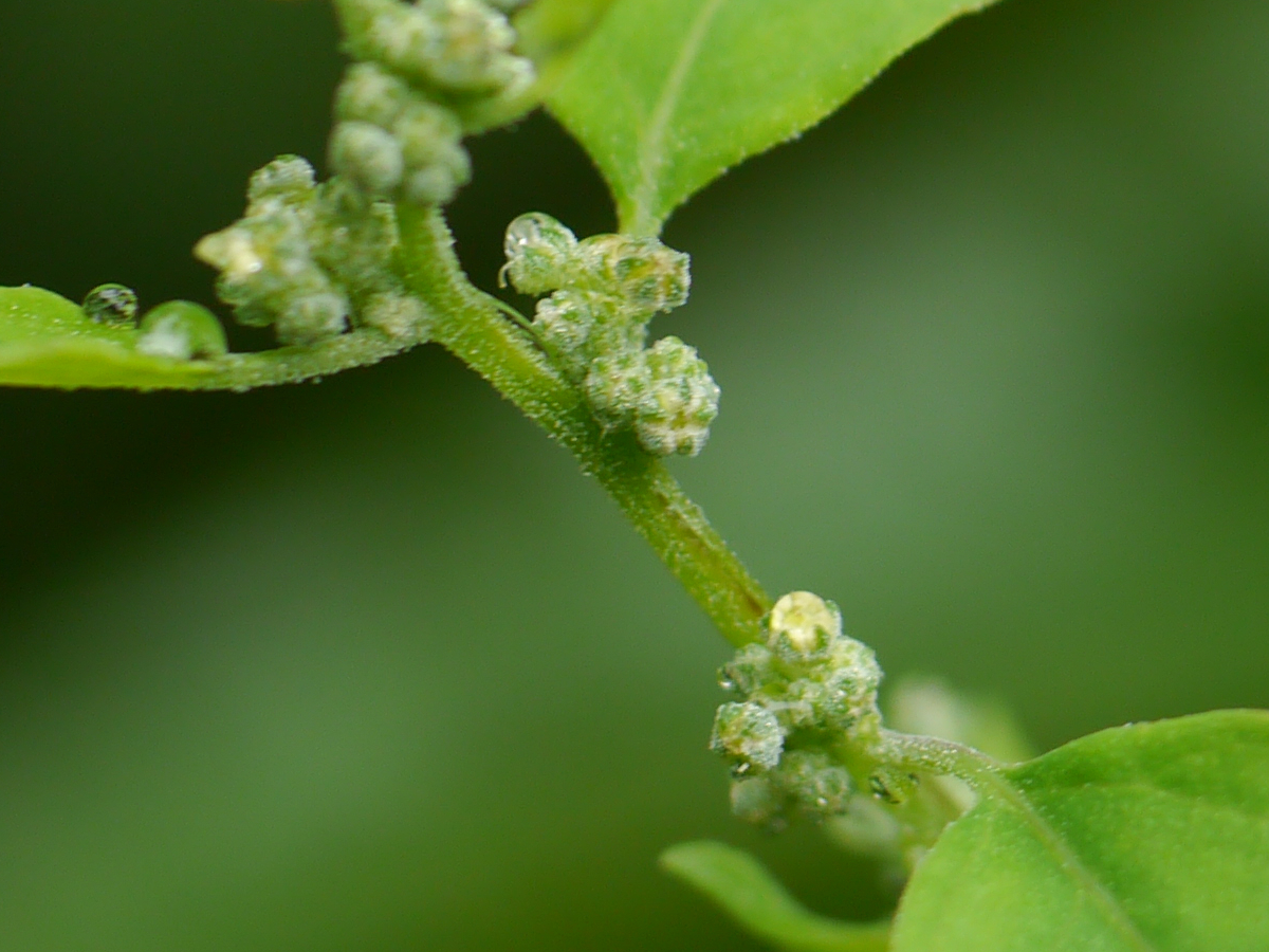 Chenopodiaceae (goosefoot family) » Chenopodium album L. ken-oh-POH-dee-um -- from the Greek chen (goose) and podion (little foot) ... Dave's Botanary AL-bum -- white ... Dave's Botanary commonly known as: fat hen, lamb's quarters, white goosefoot • Assamese: ভতুবা bhatuba, জিল্মিল্ jilmil • Bengali: বেথো শাক betho shaak, বেথুয়া শাক bethuya shaak • Gujarati: બથવો bathavo, ચીલની ભાજી chilani bhaji • Hindi: बथुवा bathuwa • Kannada: ಚಕ್ರವರ್ತಿ chakravarti, ಚಕ್ಕವತ್ತ chakkavatta, ಹುಚ್ಚ ಚಕ್ಕೋತ huchcha chakkota • Malayalam: പരിപ്പുചീര parippuchira, വാസ്തുചീര vastuchira • Manipuri: মোনশাওবী monshaobi • Marathi: चाकवत chakvat, वासुकें vasukem • Nepali: बेथे bethe • Oriya: ବଥୁଆ ଶାଗ bathua sag • Punjabi: ਲੂਨਕ lunak • Sanskrit: वास्तुक vastuka • Tamil: சக்கரவர்த்தி கீரை chakravarthi keerai, பருப்புக்கீரை paruppu-k-kirai • Telugu: పప్పుకూర pappukura, వాస్తుకము vastukamu names derived from Sanskrit: ... Hindi: चन्द्रिल chandril, पांशु panshu, टक्कदेशी takka-deshi, वास्तूक vastuk • Kannada: ವಾಸ್ತೂಕ vastuka • Oriya: ବାସ୍ତୁକ bastuka more names in Sanskrit: चक्रवर्तिन् chakravartin, चन्द्रिल chandrila, घनामल ghanamala, ज्वरघ्न jvaraghna, पांसुपत्त्र pamsupattra, पिण्डपुष्पक pindapushpaka, राम Rama, शाकश्रेष्ठ shakashrestha, टक्कदेशीय takkadeshiya, वाम vama Distribution: naturalized widely, also cultivated; exact native range obscure References: Flowers of India • Flora of China • Wikipedia • NPGS / GRIN • ENVIS - FRLHT